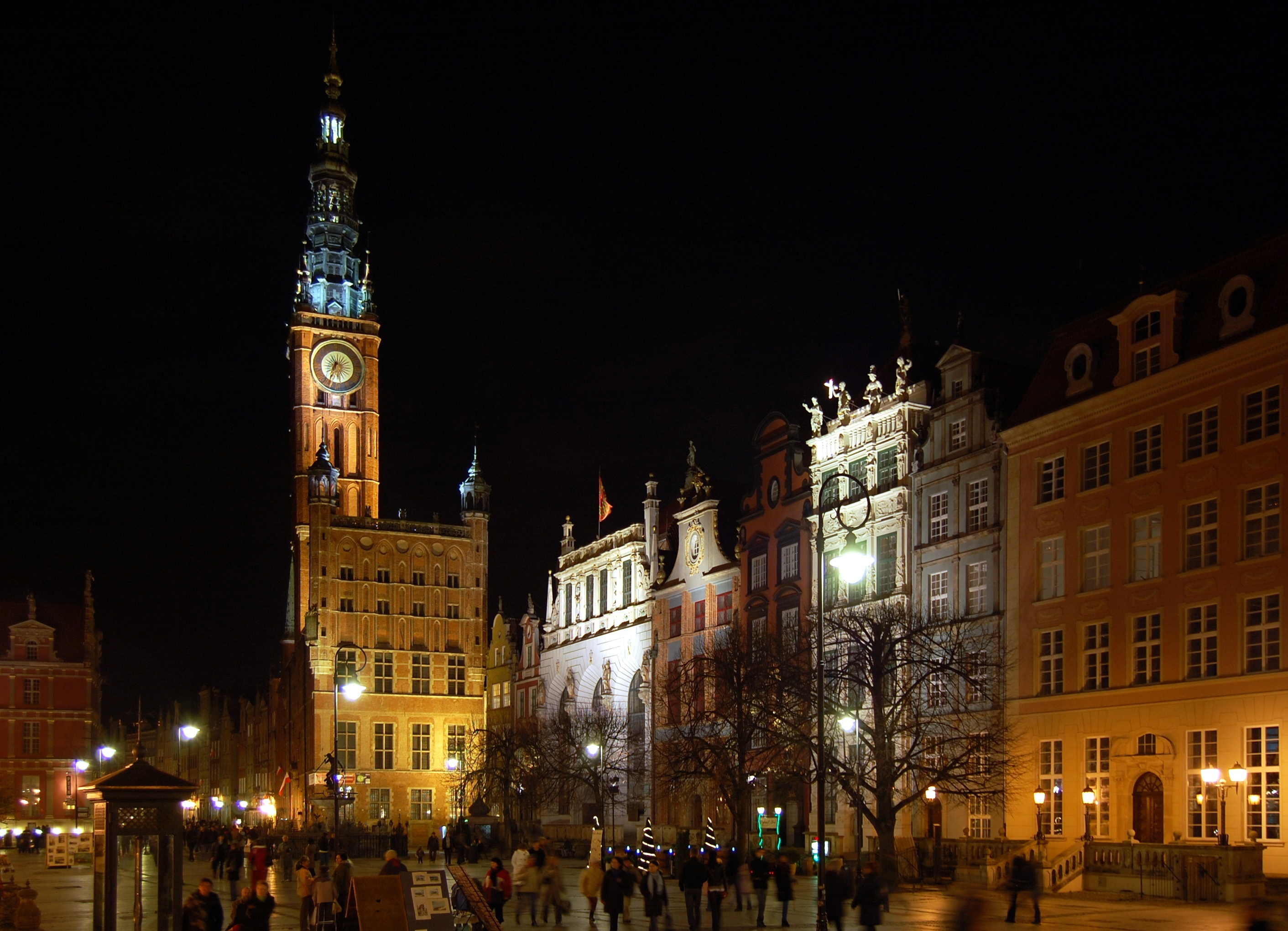 Long Market in Gdańsk, Poland at night.